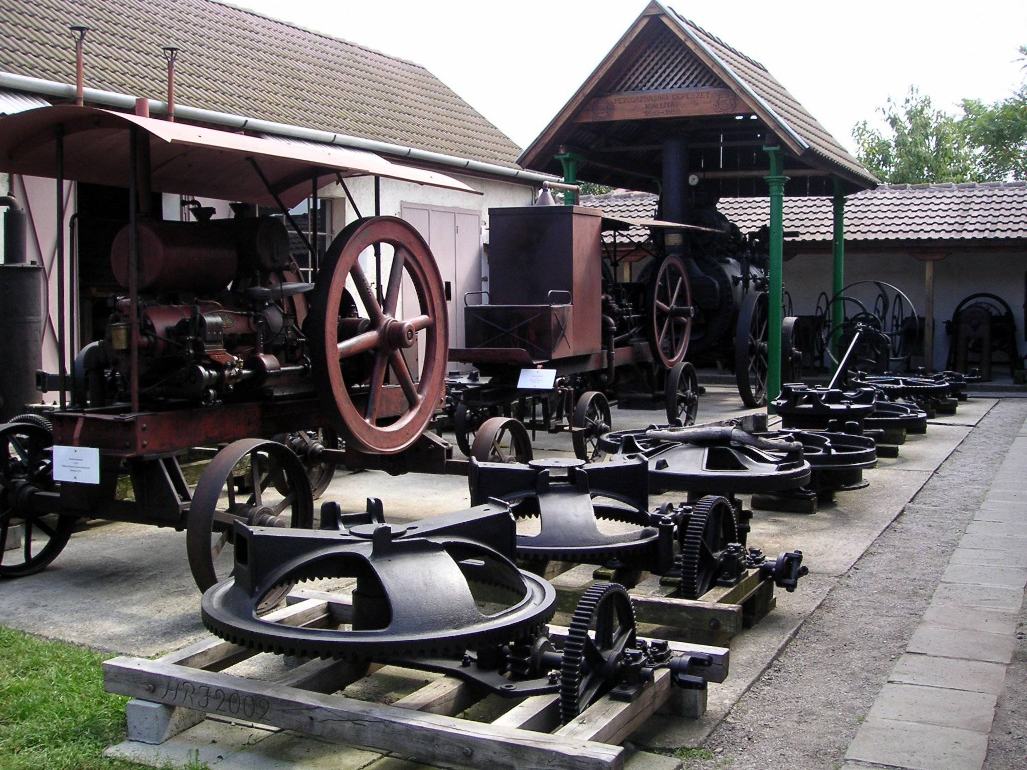 Agriculture museum in Mezőkövesd, Hungary Author: Wojsyl